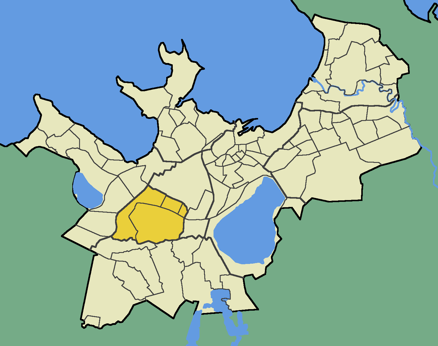 Map of Tallinn (Estonia) with borders of the quarters, Mustamäe district emphasised